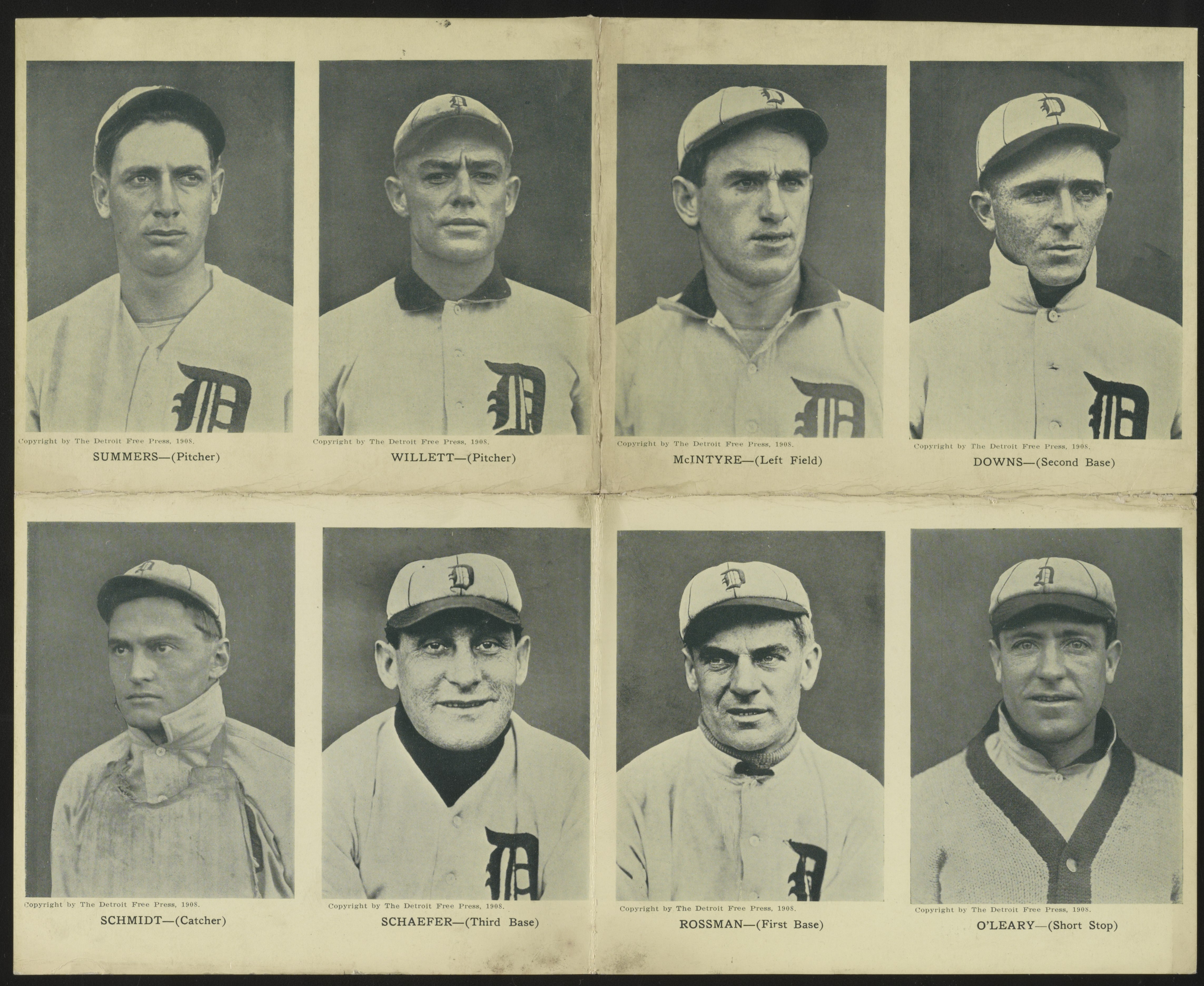 Title: Portraits of Detroit baseball players Abstract/medium: 1 sheet of 8 prints (postcards).